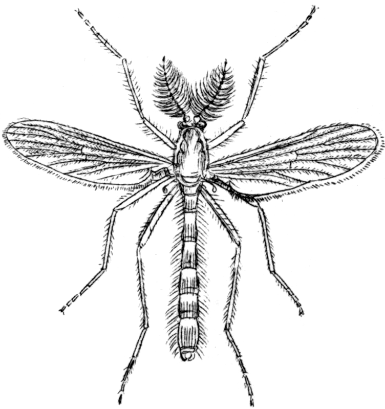 Male of Chaoborus crystallinus (Chaoboridae), illustrated as Corethra plumicornis